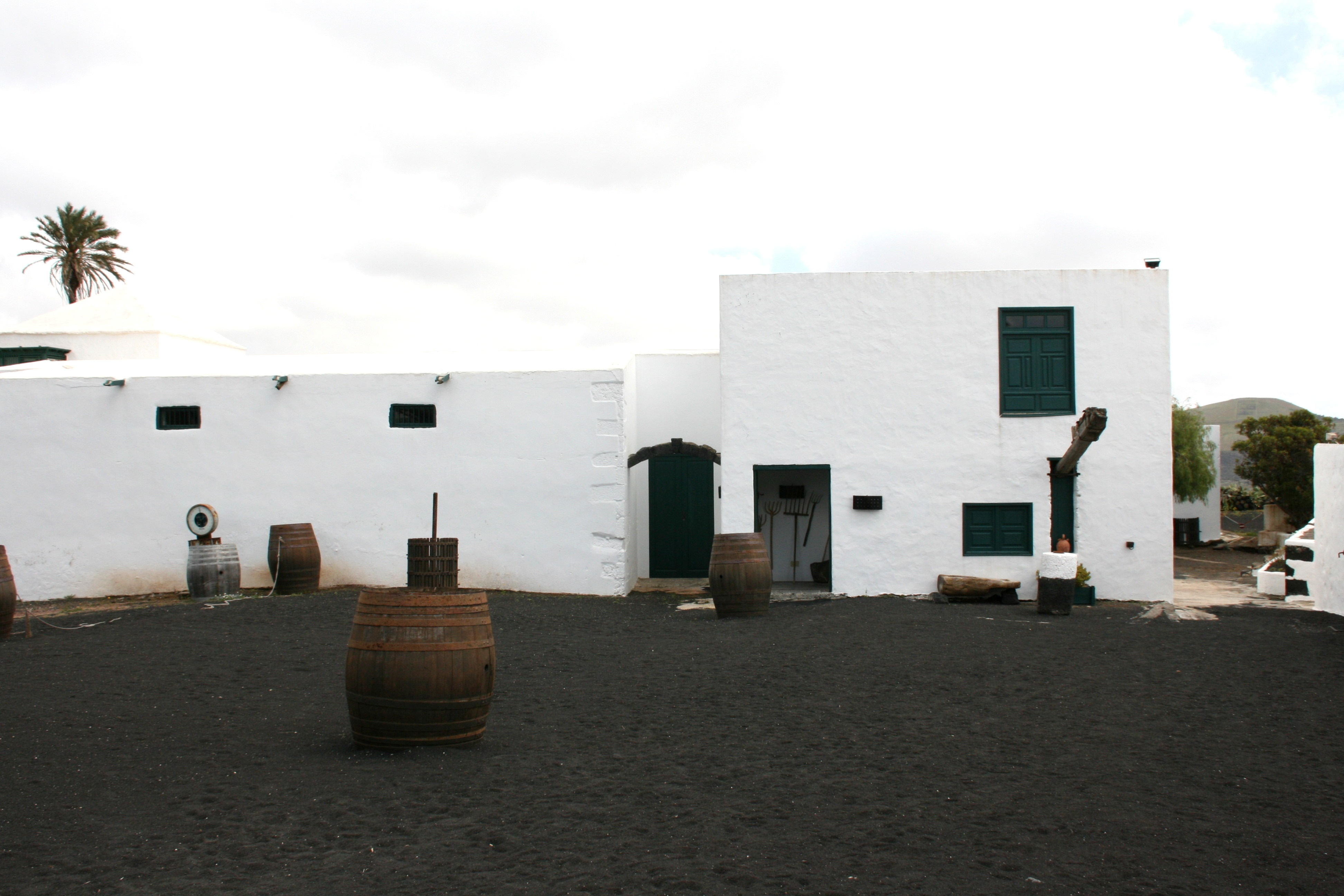 Bodega El Grifo, LZ-30 in San Bartolomé, Lanzarote, Canary Islands.